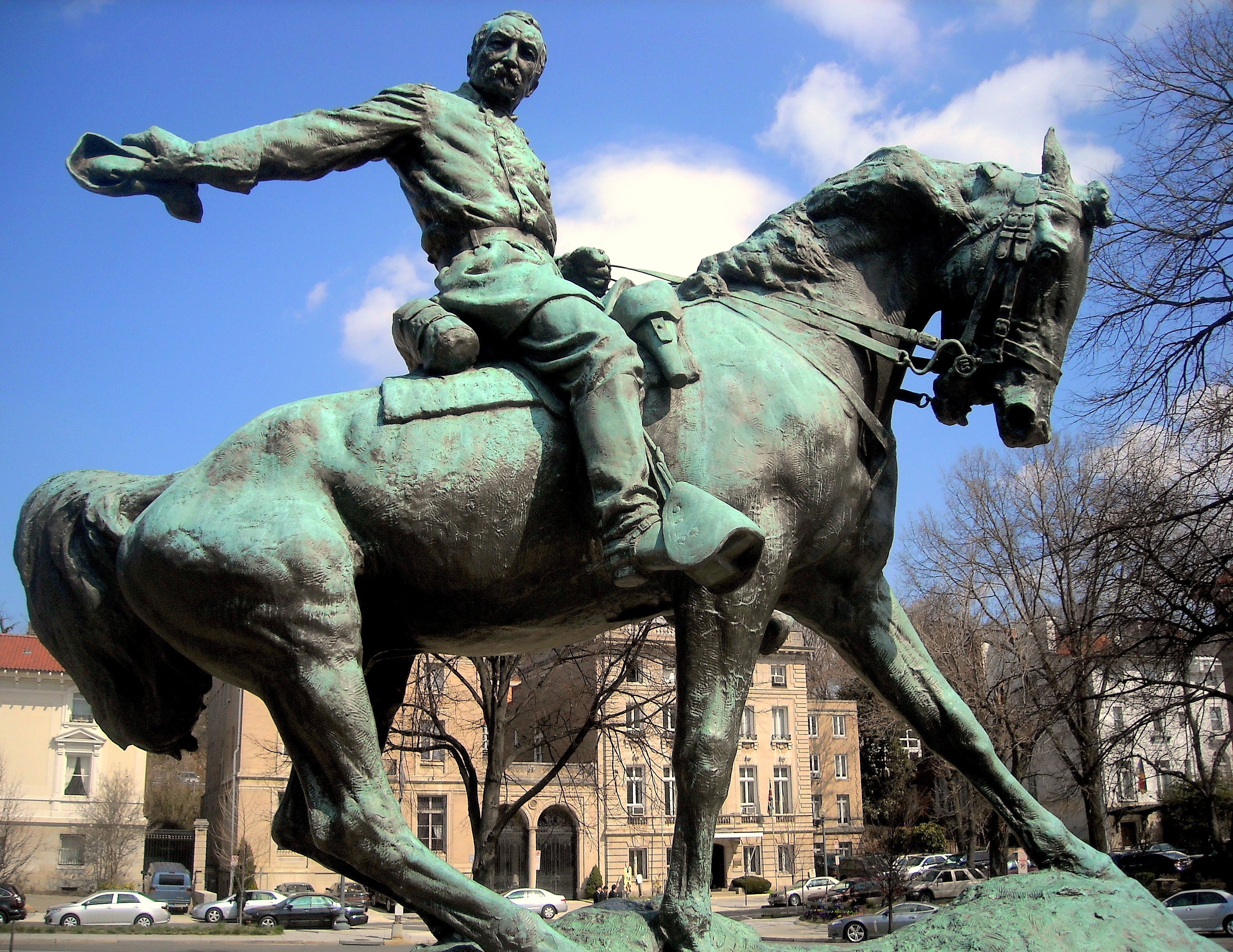 The memorial honoring General Philip Sheridan located in the center of Sheridan Circle in Washington, D.C. It was sculpted by Gutzon Borglum in 1908.